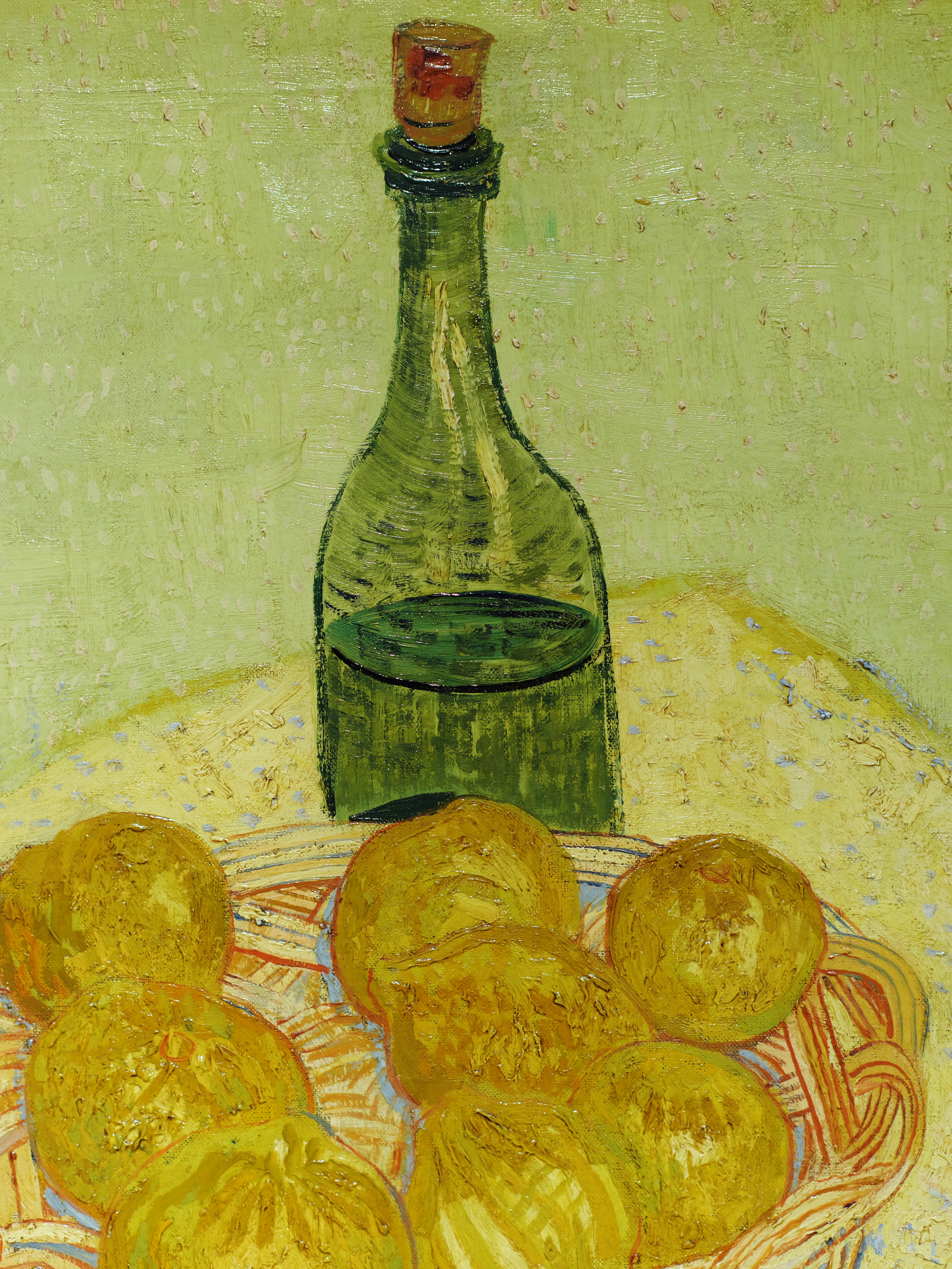 Van Gogh, still life, detail, bottle and lemons, F384, Arles, 1888